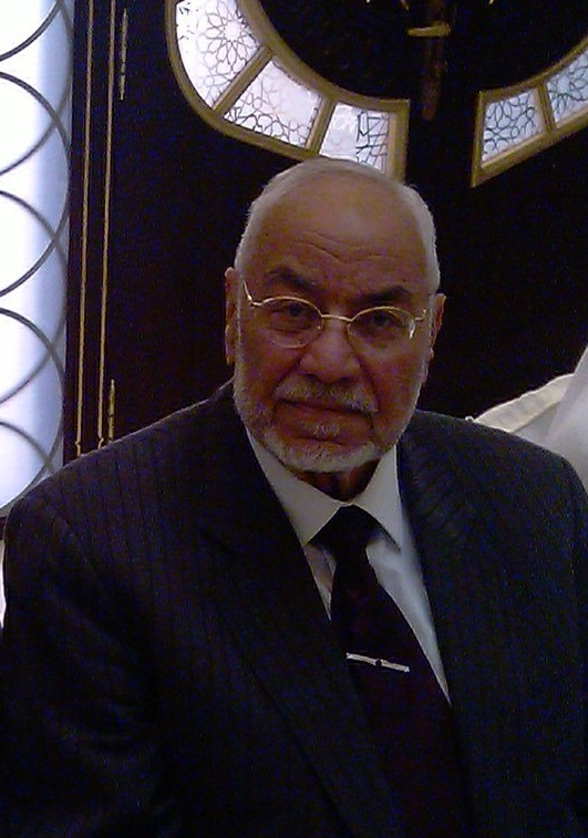 Mohammad Akif